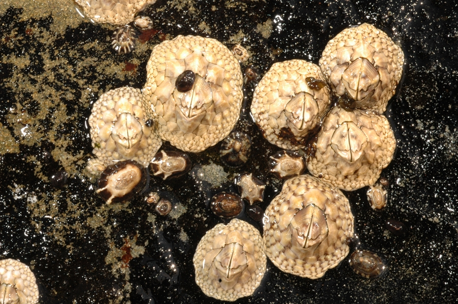 Catomeris polymerus small cluster, not crowded. Picture is very clear, showing operculars, shell plates, and whorls of imbricating basal plates.